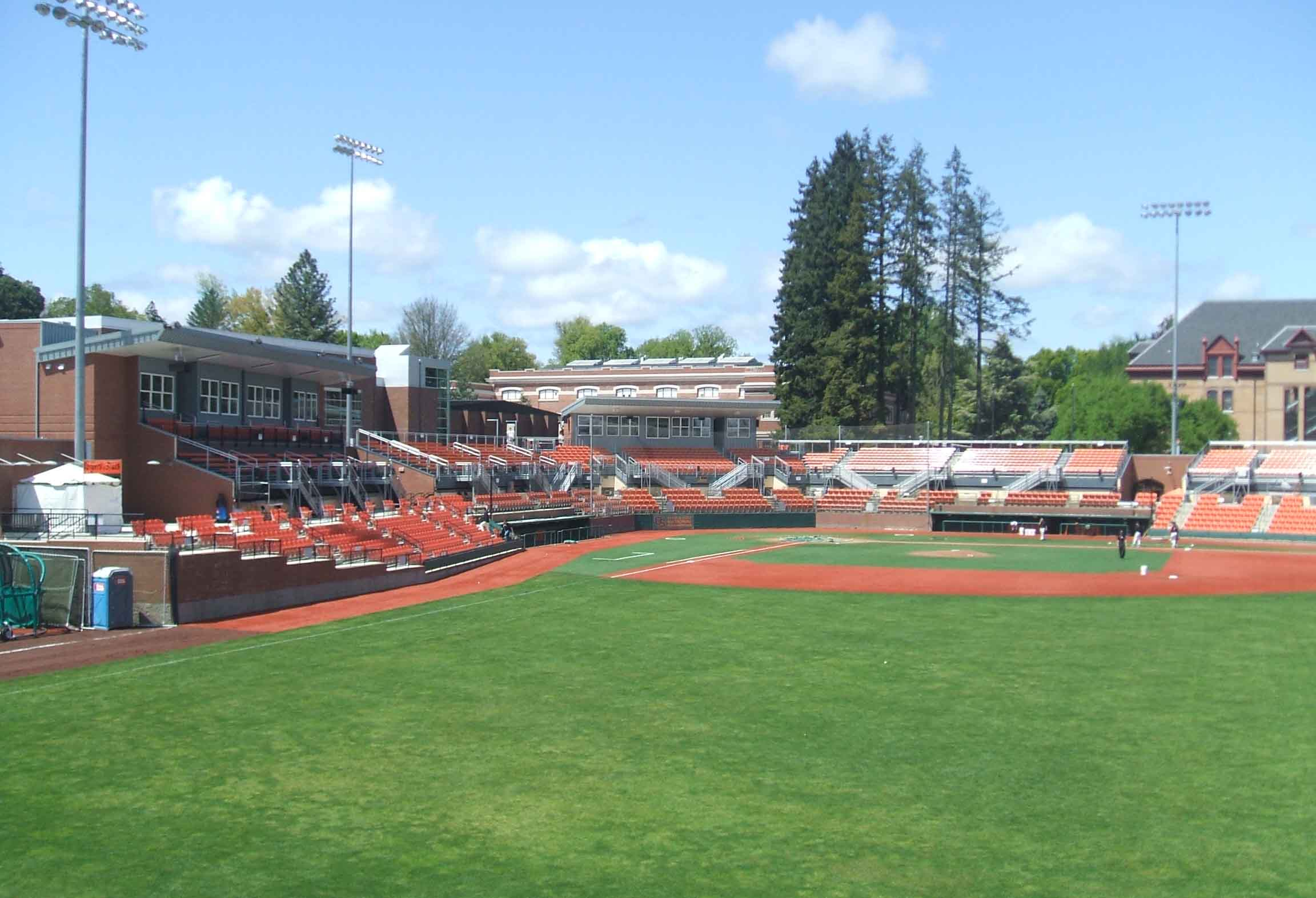 Photo of Goss Stadium, Oregon State University. Taken by Joe Maguire, May 14, 2009 from the right field bleachers.